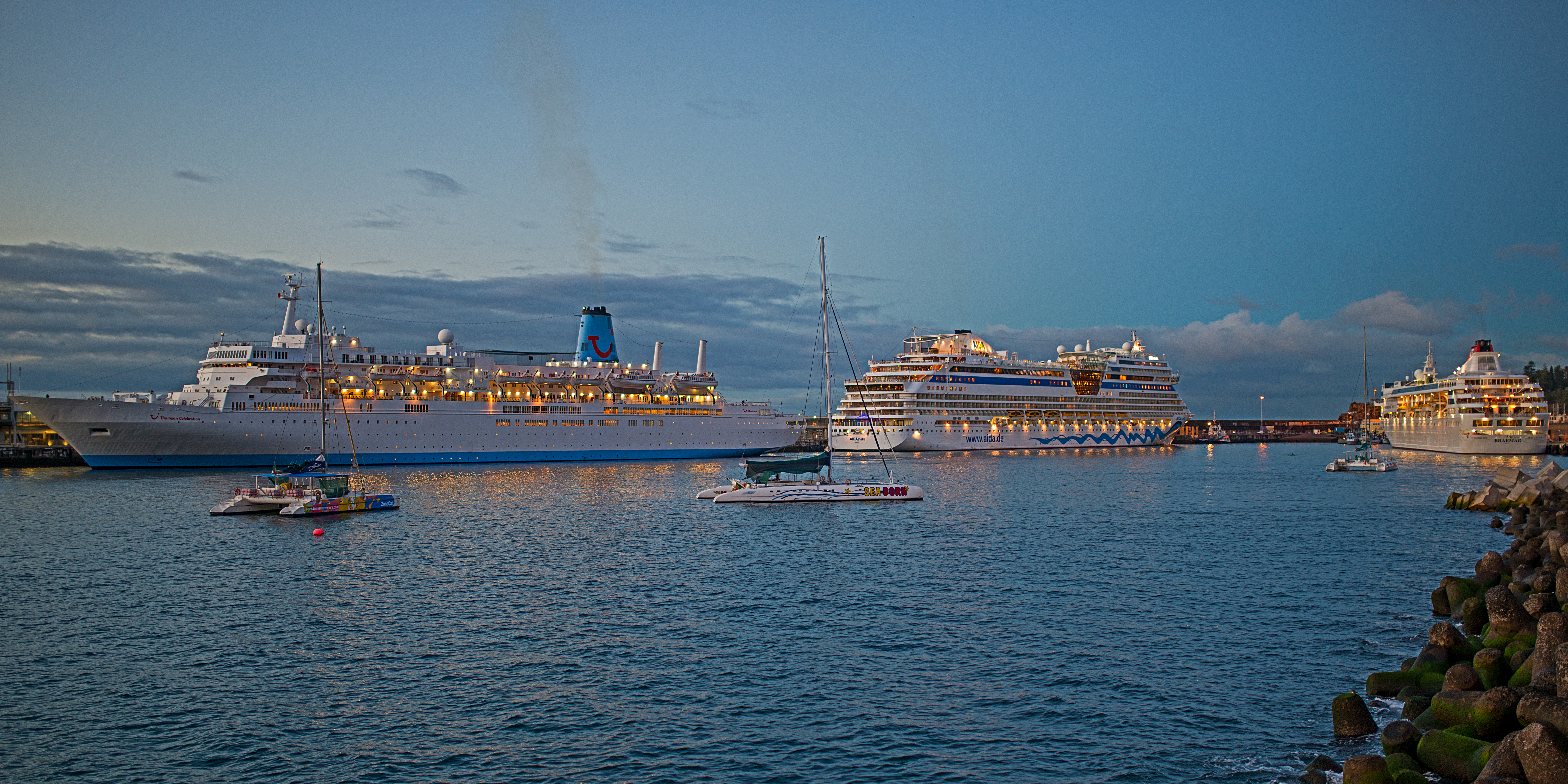 Funchal Madeira January 2014